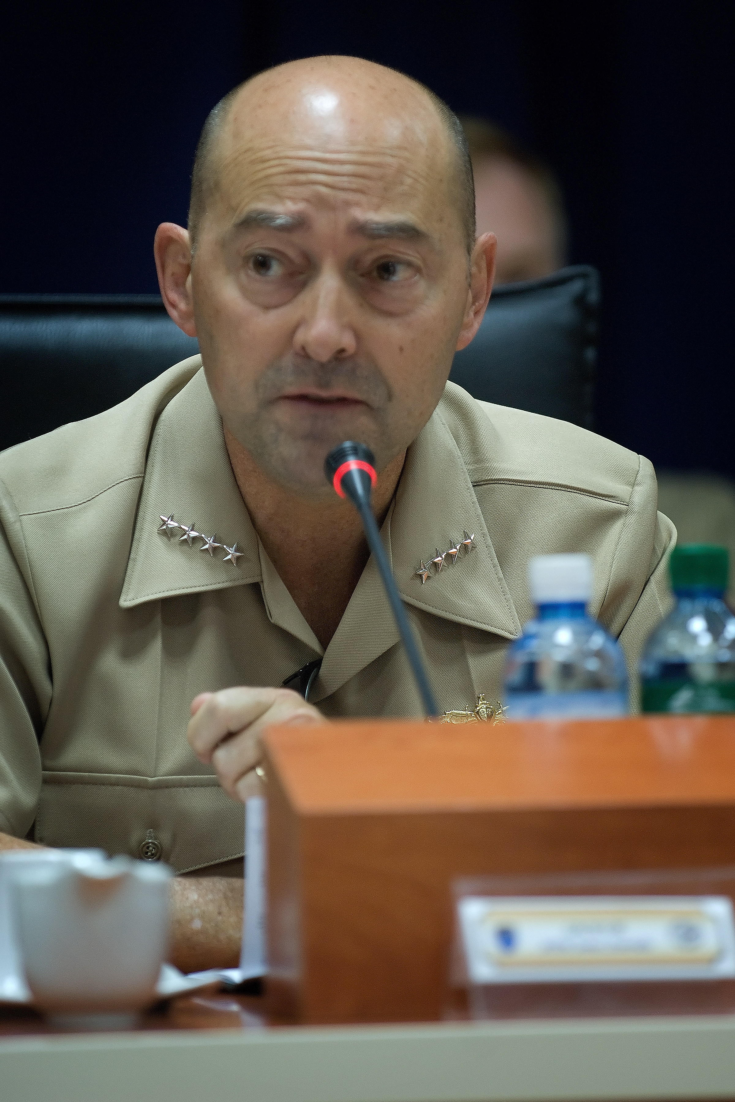 Adm. James Stavridis, supreme allied commander europe, today, travelled to Pristina, Kosovo, to meet with Kosovo Security Force Minister Fehmi Mujota, commander of NATO's Kosovo Force; Lt. Gen. Giuseppe Emilio Gay; and KFOR Multinational Task Forces commanders. Stavridis took the opportunity to discuss the current Kosovo security situation, NATO's recent decision to reduce the profile of NATO forces in Kosovo, the KSF training and recruiting progress, training resources and equipment requirements, as well as the current status of the EULEX deployment. "I am very satisfied with the latest developments in Kosovo. The NAC decision to further reduce the profile of NATO forces in Kosovo is a clear indication of confidence in local capacity, capability and responsibility. The government of Kosovo is steadily taking on more and more of the responsibility for ensuring the rule of law and governance of the Kosovo population," said Stavridis after meeting with Minister Mujota. "NATO will remain committed to promoting peace, stability, prosperity and respect for human rights in the region. Our goal is to see the responsibility for maintaining peace shift to the local population and institutions," further emphasized Stavridis. Addressing MNTF commanders Stavridis said: "The progress NATO achieved in Kosovo is significant and KFOR's move toward Deterrent Presence is a sign of the Alliance's confidence in the progress made. It allows NATO to adopt a new force structure concept reducing the number of troops deployed in Kosovo," Stavridis continued. During his Kosovo visit, Stavridis also visited Gazimestan monument, the site of the Battle of Kosovo, which took place in 1389 and Sultan Murad's Tomb. It was Admiral's Stavridis first visit in Kosovo since assuming his post as Supreme Commander Allied Powers Europe, commander of NATO's Allied Command Operations earlier this month. Stavrisdis is briefed in the "Batcave" in HQKFOR, during his first visit to Kosovo